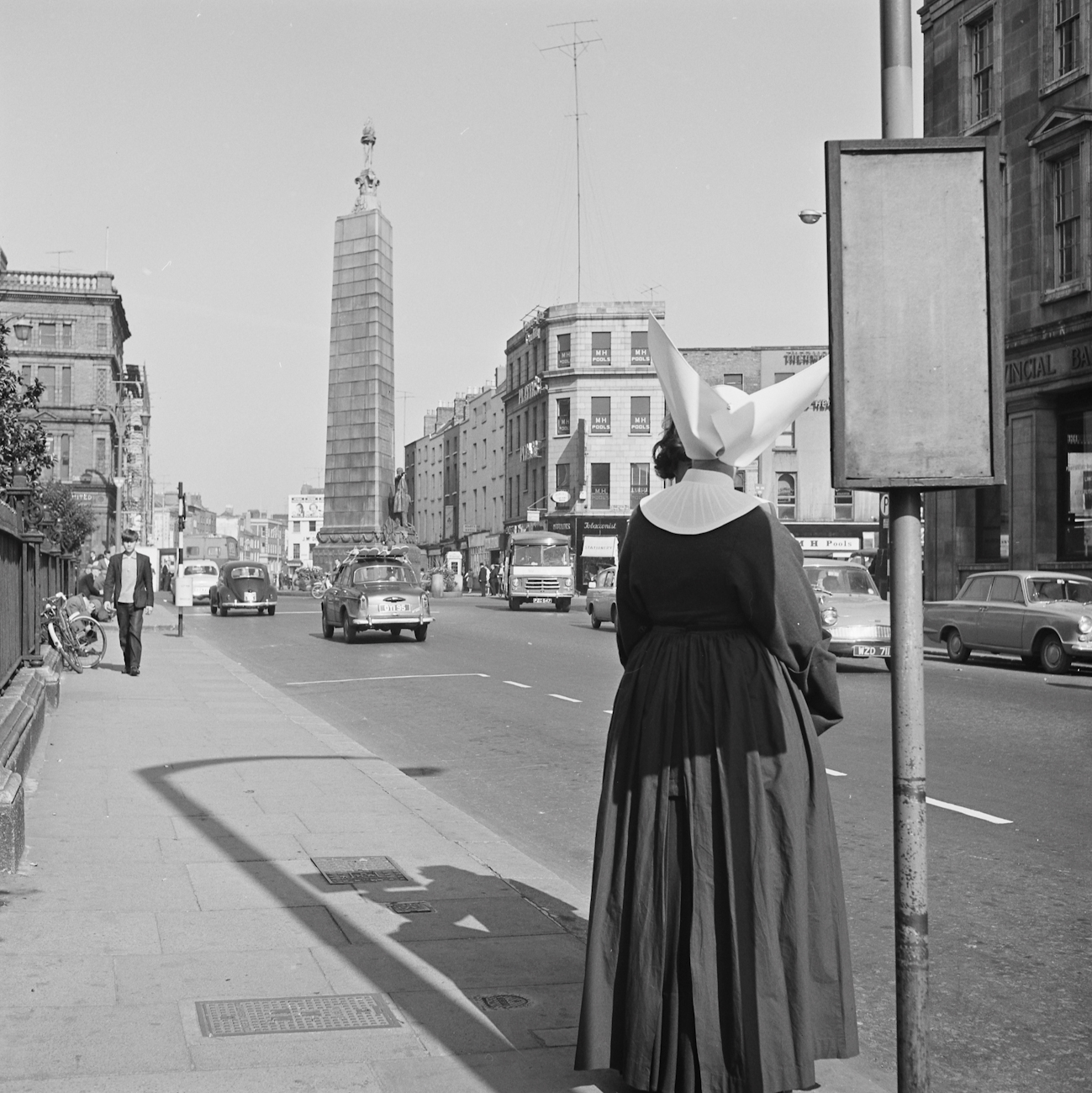 A nun with a most remarkable (and slightly dangerous-looking) veil/head dress waiting for a bus outside the Rotunda Hospital on Parnell Street, Dublin. Cannot work out whether a clump of her own hair (unlikely) has come loose, or whether she is masking a person in front of her... With help from people over on our NLI Facebook page, it turns out this nun was a member of the Daughters of Charity (of St. Vincent de Paul). The distinctive head dress is called a cornette, and led to this order being known as the Butterfly Nuns. The Daughters of Charity abandoned the cornette on 20 September 1964, so unless this nun was ultra-traditional and carried on wearing it regardless, then this photo must have been taken before 20 September. This shot also allows us to view the Parnell Monument at the end of O'Connell Street from yet another angle. Date: 1964 NLI Ref.: WIL 10[12]